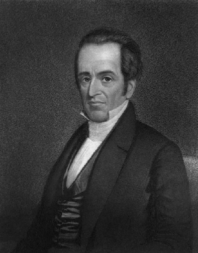 Image of David Elliott (college president) (1787-1874)